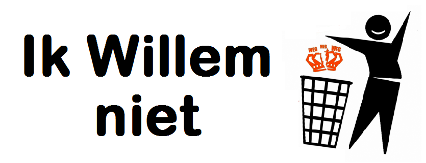 Dutch sign protesting the Investiture (and rule) of Willem-Alexander as King of the Netherlands. It was designed by the New Republican Society (NRG) and combines the words 'Willem' ("William") and 'wil hem' ("want him") to simultaneously say: "I don't want him" and "I don't want William". The smiling figure is throwing a broken orange crown in the bin, symbolising the abolition of the Orange monarchy.